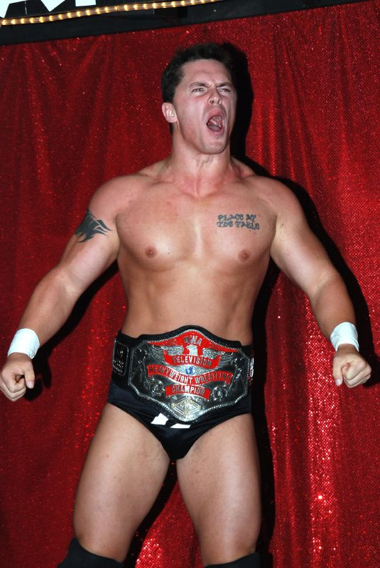 TV Champion Truitt Fields